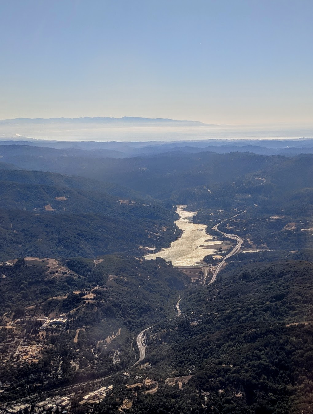 Lexington Reservoir aerial, from the north, with Monterrey Bay in the background